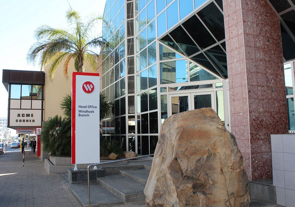 This is an image of the Bank Windhoek Head Office and Windhoek Branch on Independence Avenue in Windhoek, Namibia.